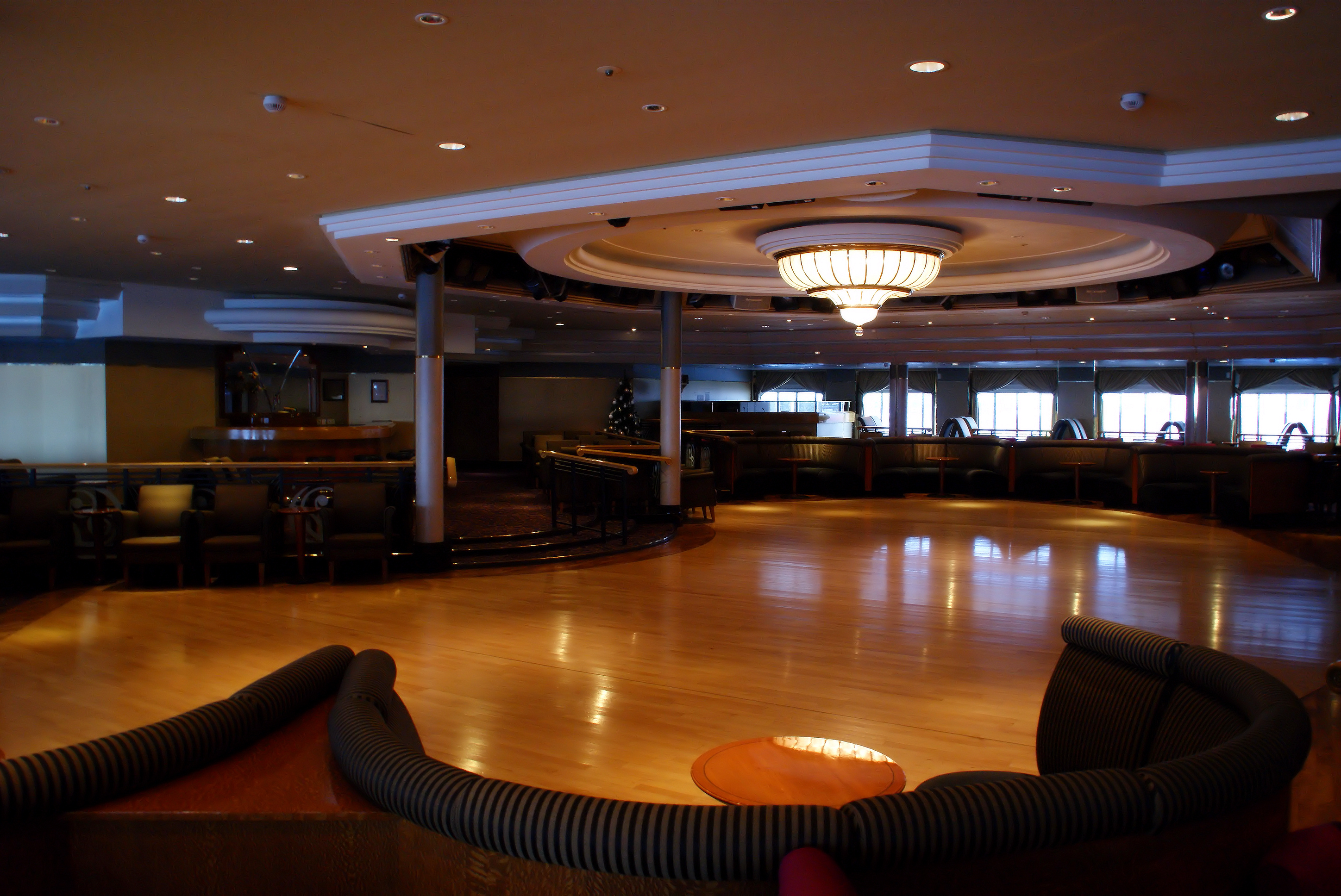 Asuka II, Club 2100. Taken at Beppu Port(Beppu City, Oita Prefecture, Japan).